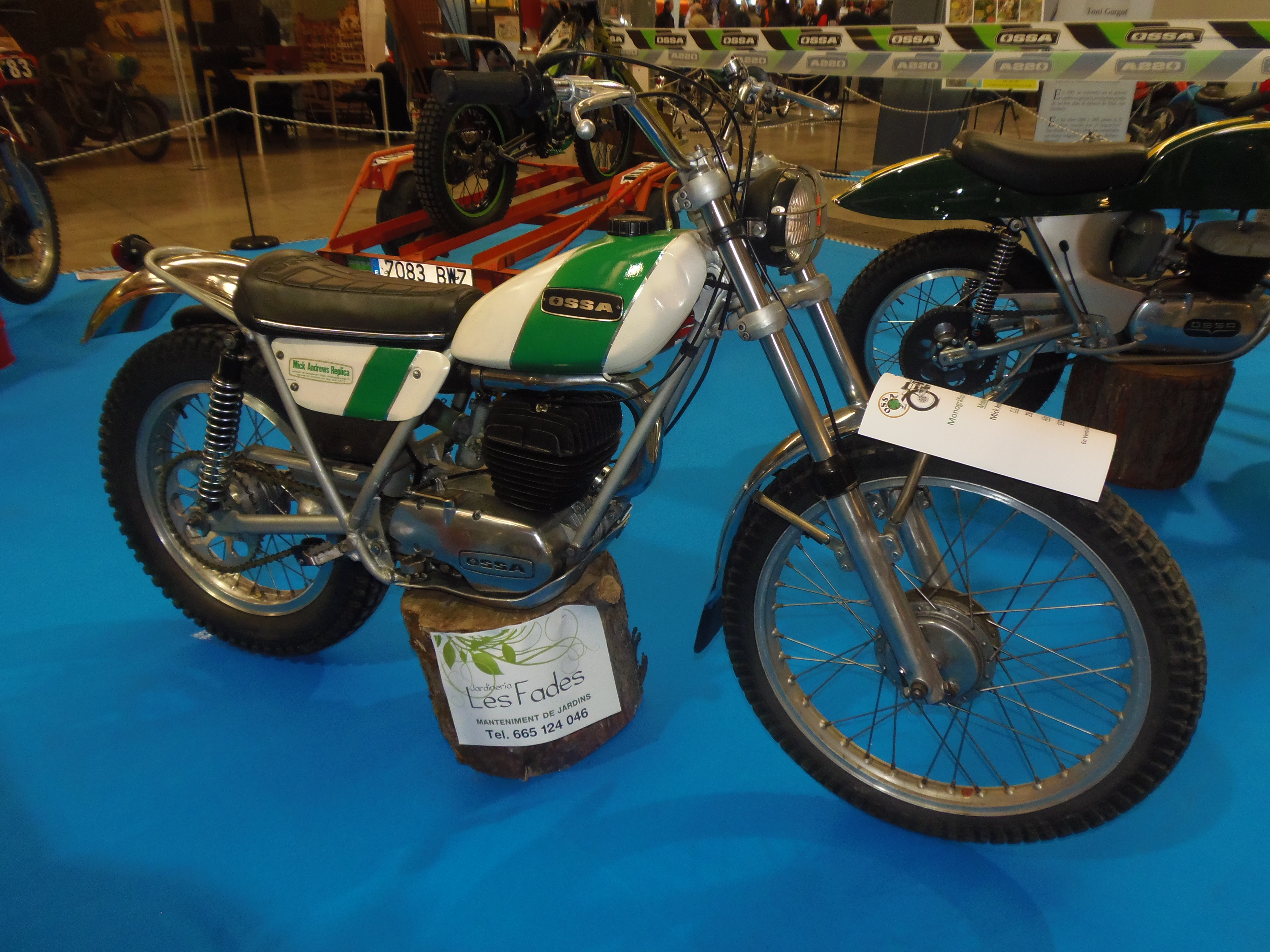 OSSA MAR ("Mick Andrews Replica") 250cc, 1972